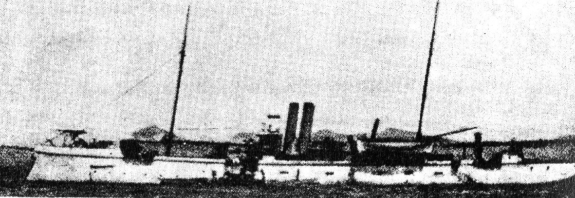 Venezualan gunboat "Bolivar" former spanish "Galicia". Since 1899 in venezualan service.